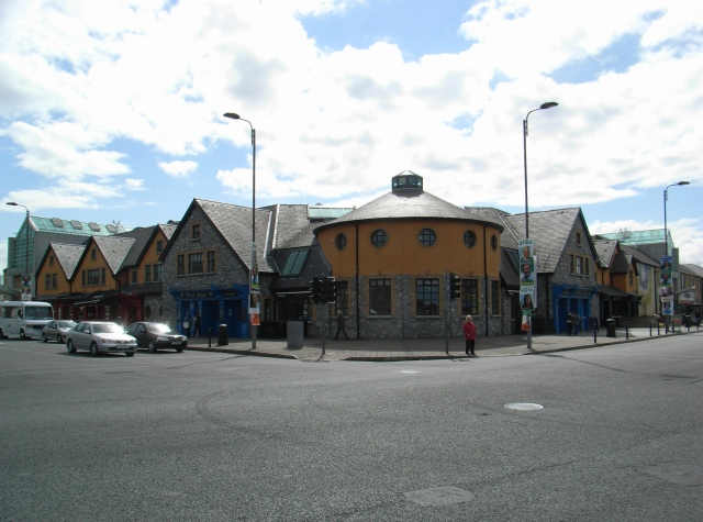 The Submarine Bar, Crumlin, near to Crumlin, Harold's Cross, Dolphin's Barn, Roundtown and Templeogue, Dublin, Ireland. Located at Crumlin Crossroads. With room for 1,200 patrons, it's one of the biggest in Dublin.